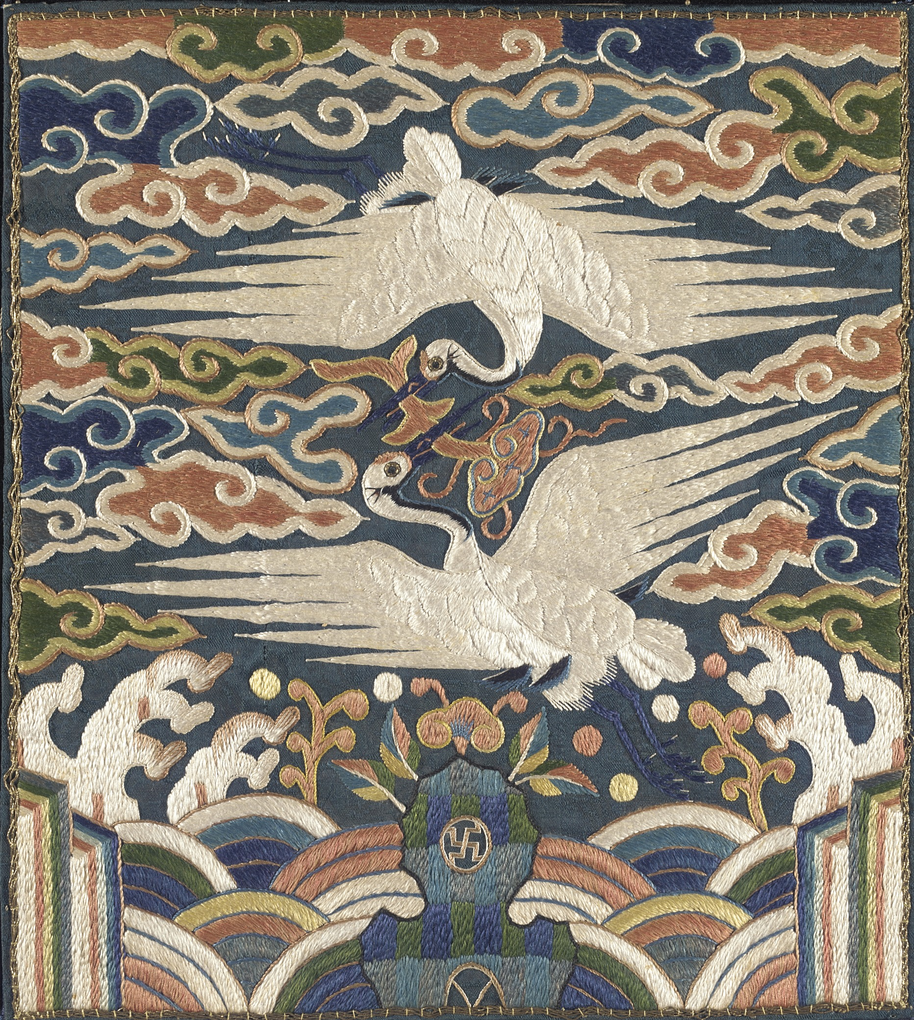 Korea, Joseon dynasty (1392-1910), second half of 19th century Jewelry and Adornments; badges Silk damask with silk and silver metallic thread embroidery 9 1/2 x 8 1/2 in. (24.13 x 21.59 cm) Purchased with Museum Funds (M.2000.15.198) Costume and Textiles